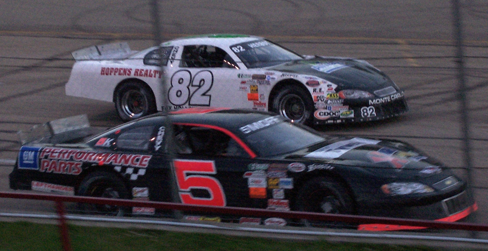 ASA Late Models in the Northern Division at Madison International Speedway exhibition.